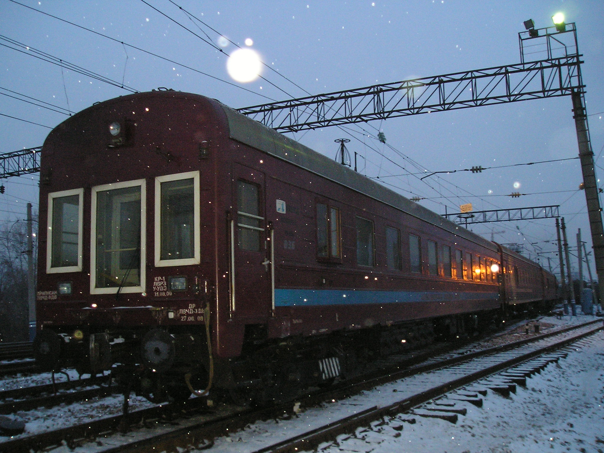 Railroad track geometry car